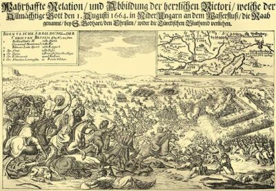 The Battle of Saint Gotthard (German tidings)